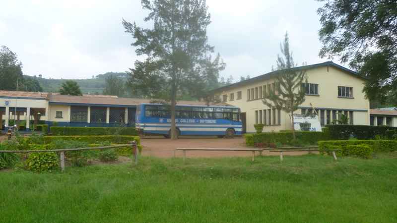 Front View of Kigezi College Butobere (SINIYA) Administration Block